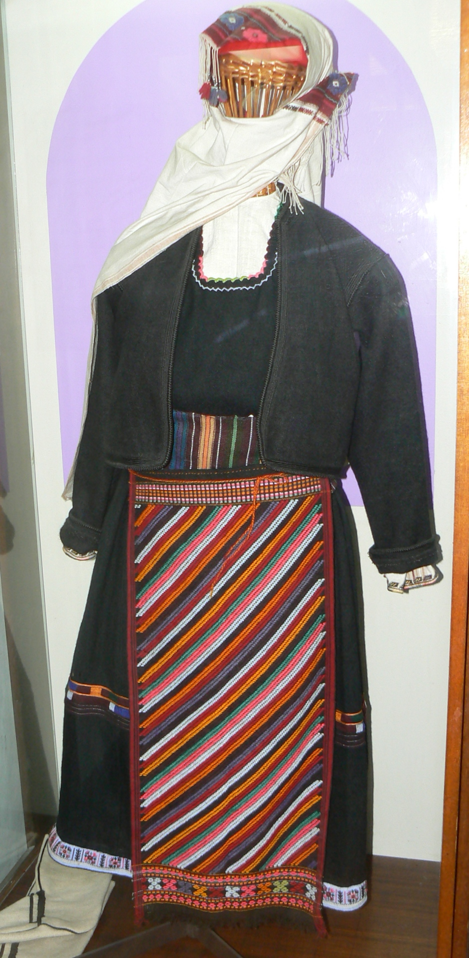 Traditional female winter costume from village Fakia, Burgas ethnographic museum